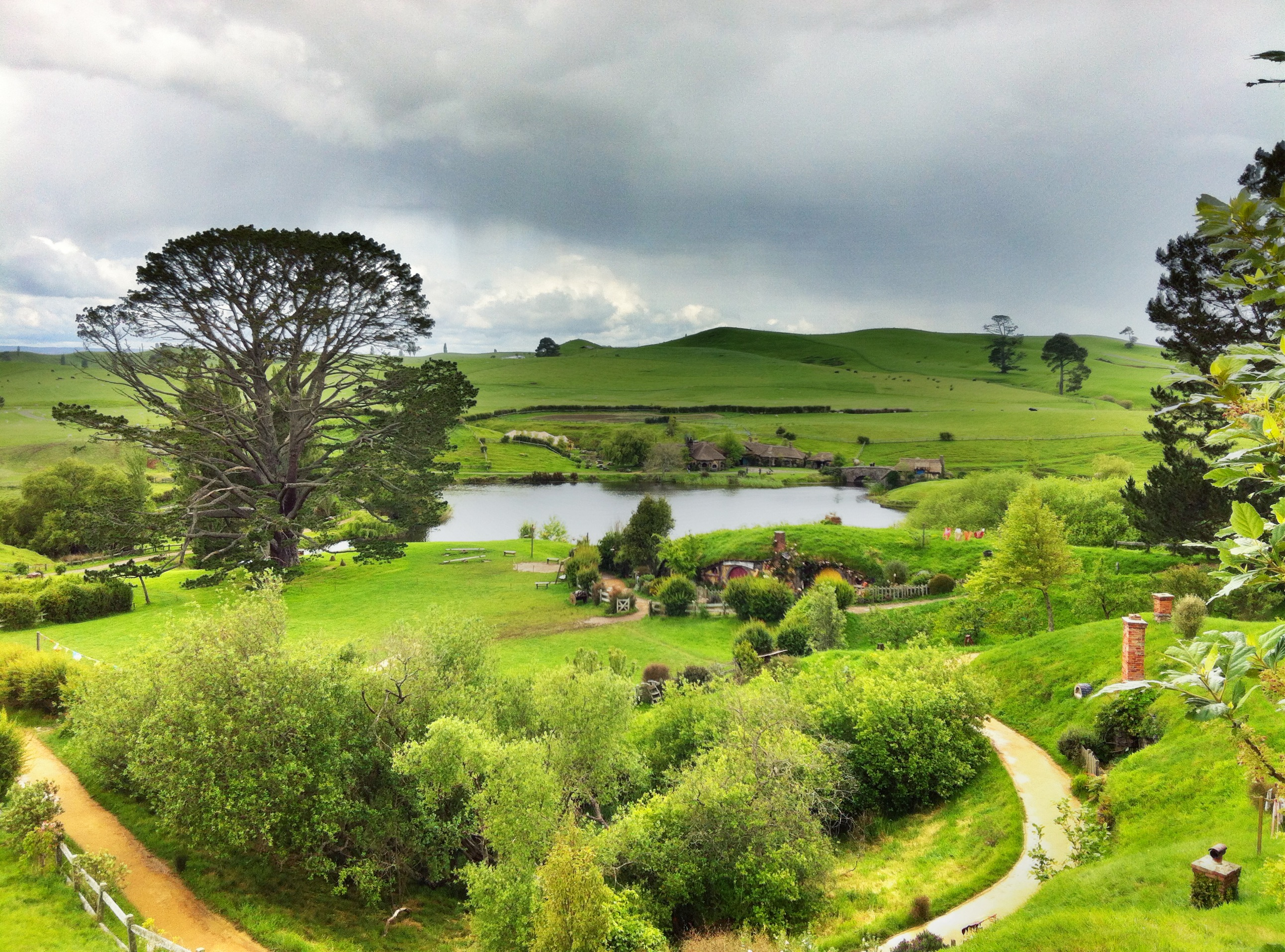 Hobbiton, The Shires, Middle-Earth, Matamata, New Zealand